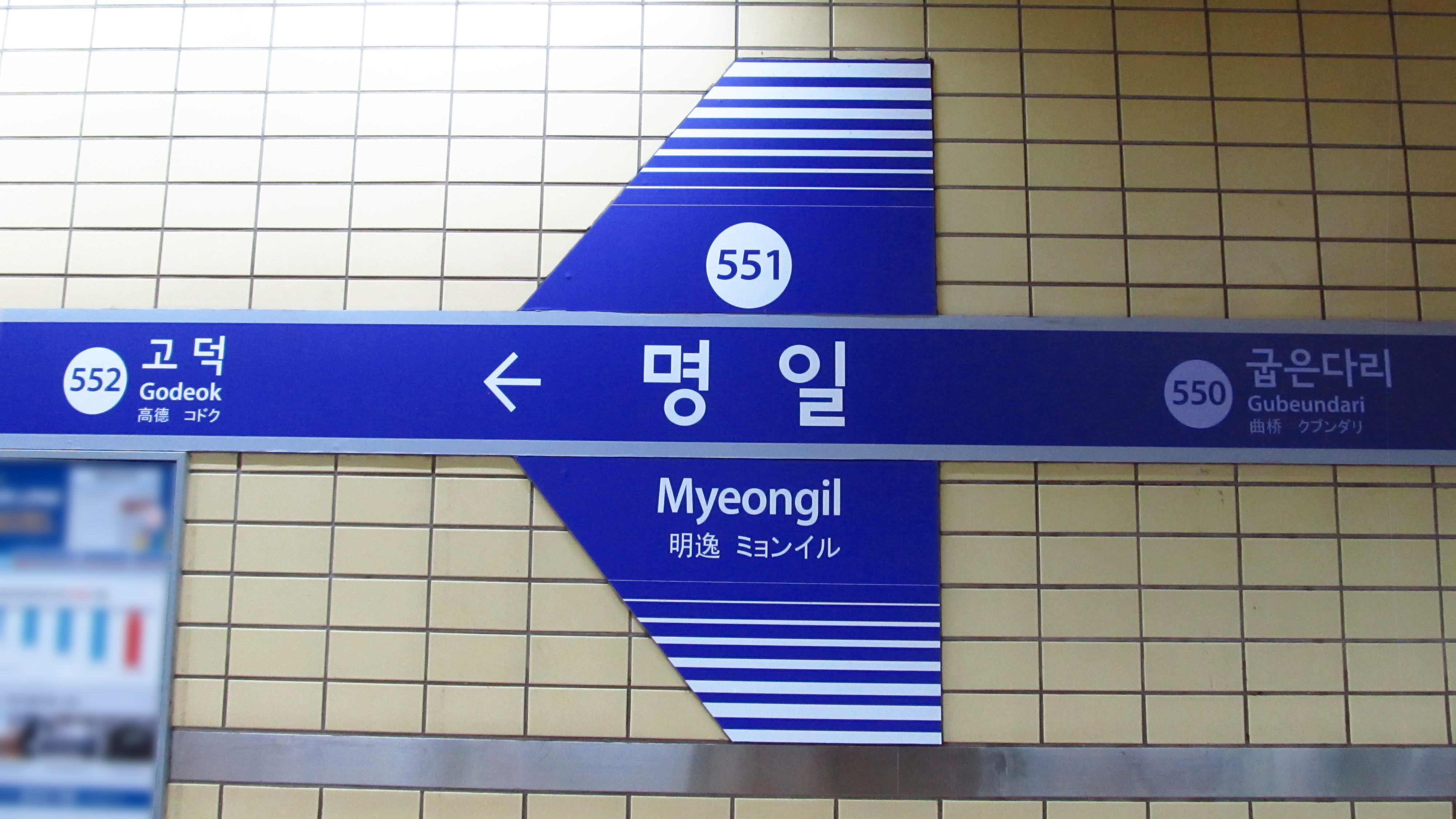 A sign of Myeongil Station on Seoul Subway Line 5